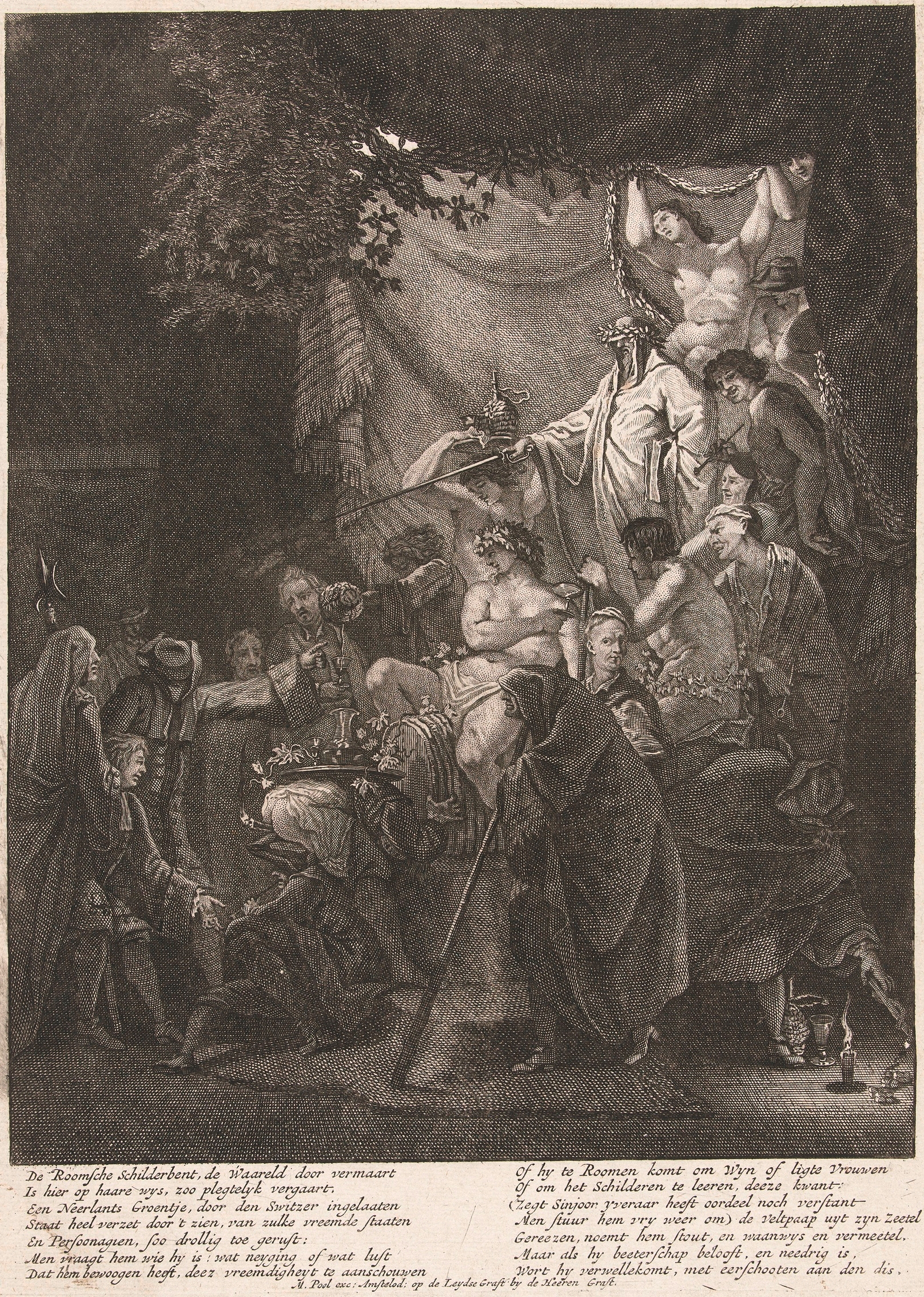 Initiation ceremony of a Bentvueghel in Rome. With a rhyme at the bottom about the initiation: De Roomsche Schilderbent, de Waareld door vermaart Is hier op hare wys, zoo plegtelyk vergaart Een Neerlants groentje, door den Switzer ingelaaten Staat heel verzet door 't zien, van zulke vreemde staaten En persoonagen, soo drollig toegerust Men vraagt hem wie hy is : wat neyging of wat lust Dat hem bewoogen heeft Deez vreemdigheyt te aanschouwen Of hy te Roomen komt om wyn of ligte vrouwen Of om het schildren te leeren, deeze kwant; (Zegt sinjoor yveraar heeft oordeel noch verstant Men stuur hem vry weer om) de veltpaap uit zyn zeetel Gereezen, noemt het stout, en waanwys en vermeetel. Maar als hij beeterschap belooft, en needrig is Wort hij verwellekomt, met eerschooten aan den dis. M. Pool